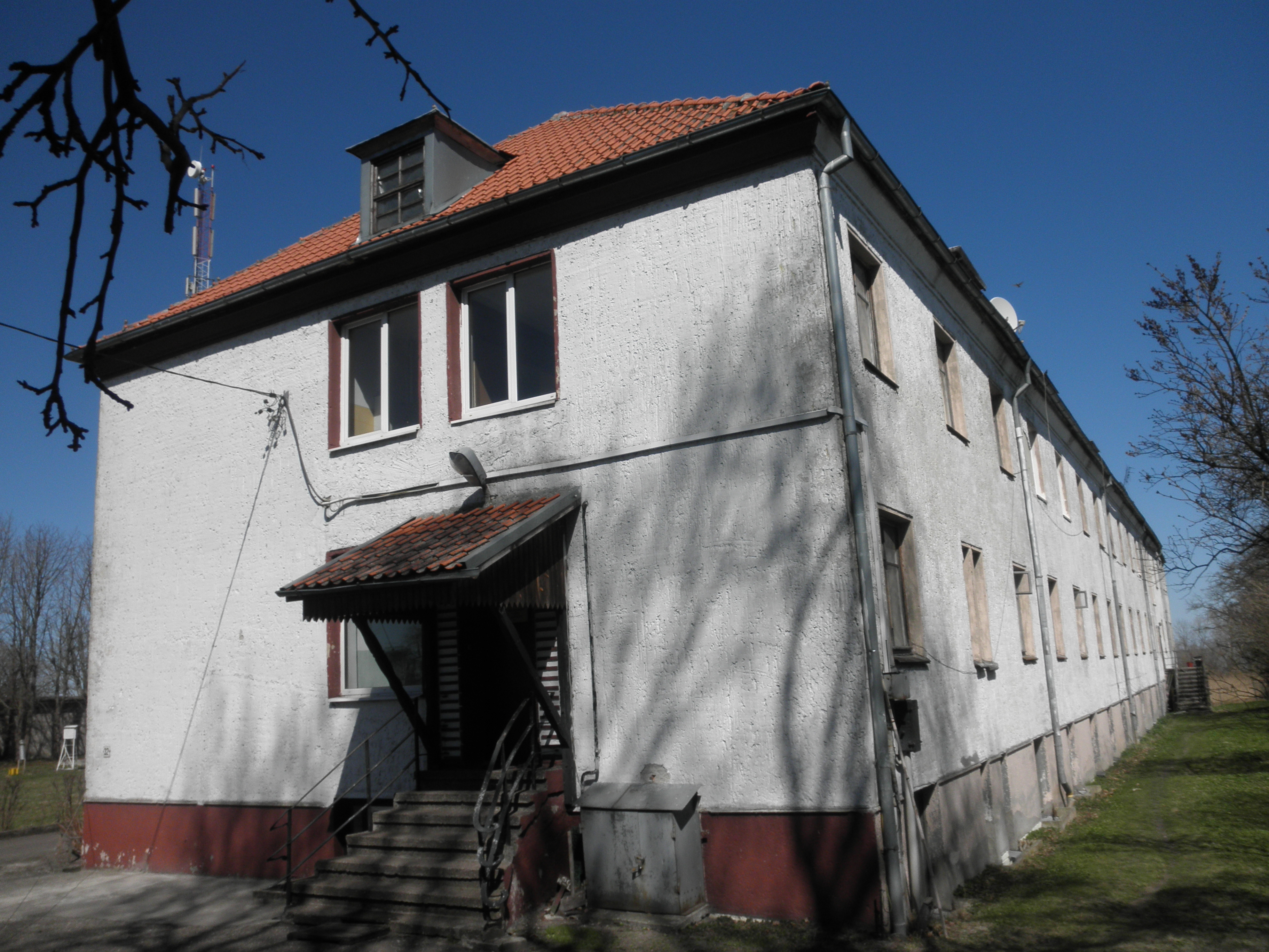 Former Kurhaus in Rossitten (Rybachy) in Kaliningrad Oblast